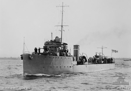 AWM Caption: H.M.A.S. YARRA. (PRINT SUPPLIED BY "OUR AUSTRALIAN NAVY")